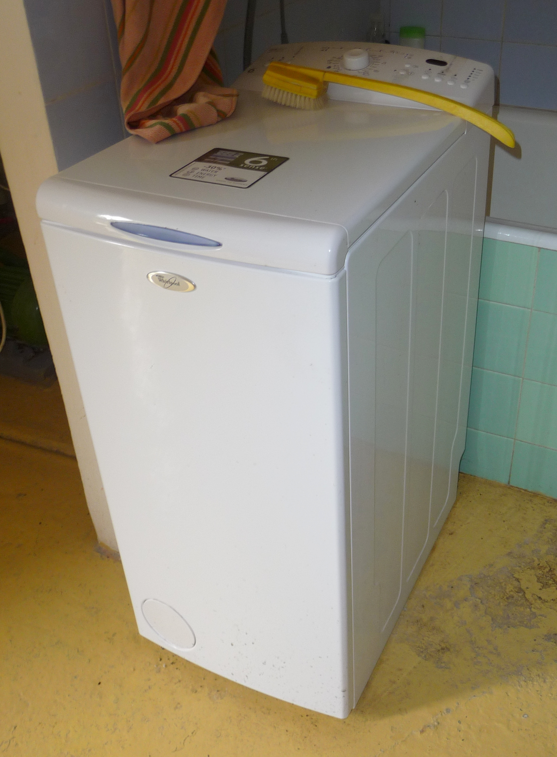 Washing machine Whirlpool